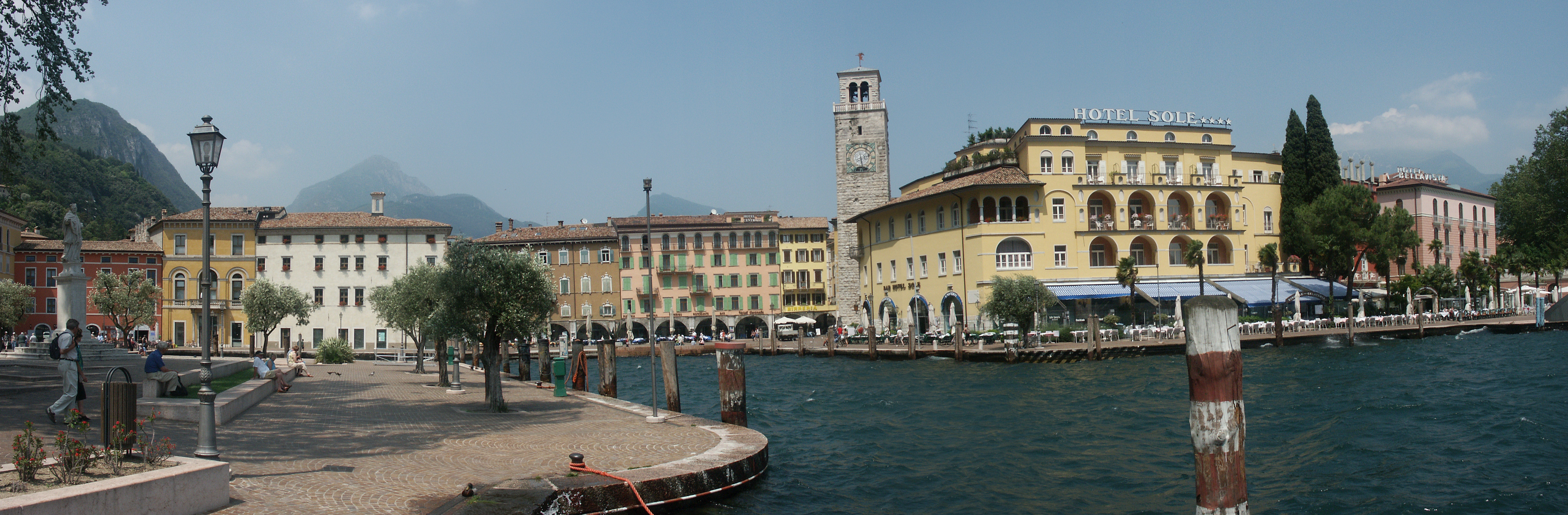 Riva, lake Garda, Italy - harbor and promenade, 3 pictures stitched